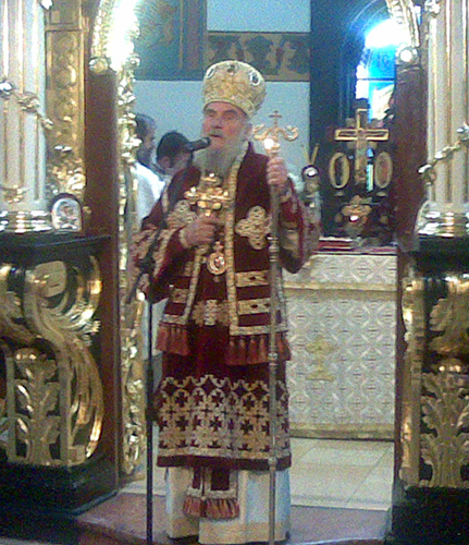 Patriarch Irinej of Serbia at the Virgin's Church in Zemun